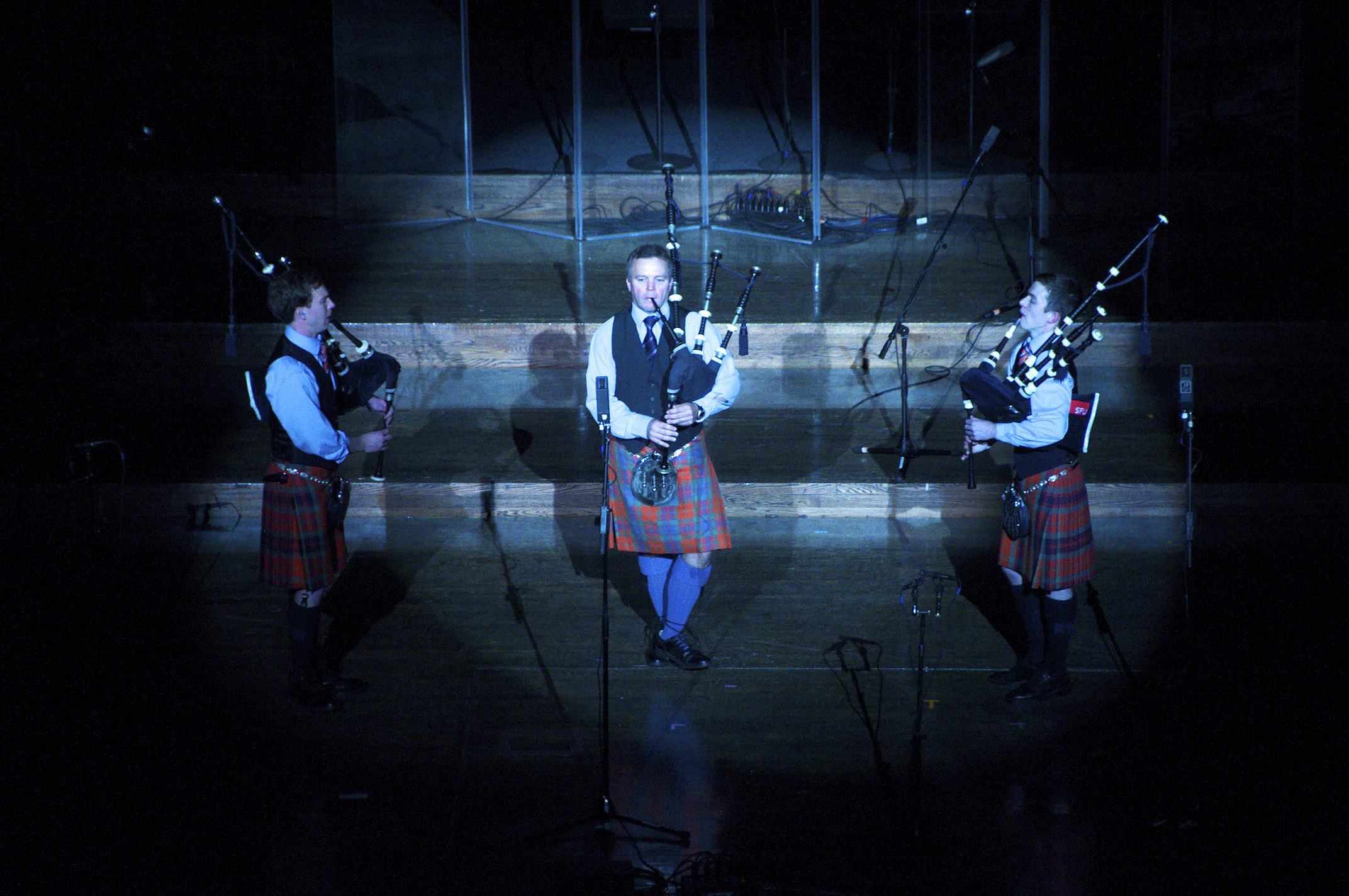 The Simon Fraser University Pipe Band drew a standing ovation with its 30th anniversary concert at New York' Lincoln Center.